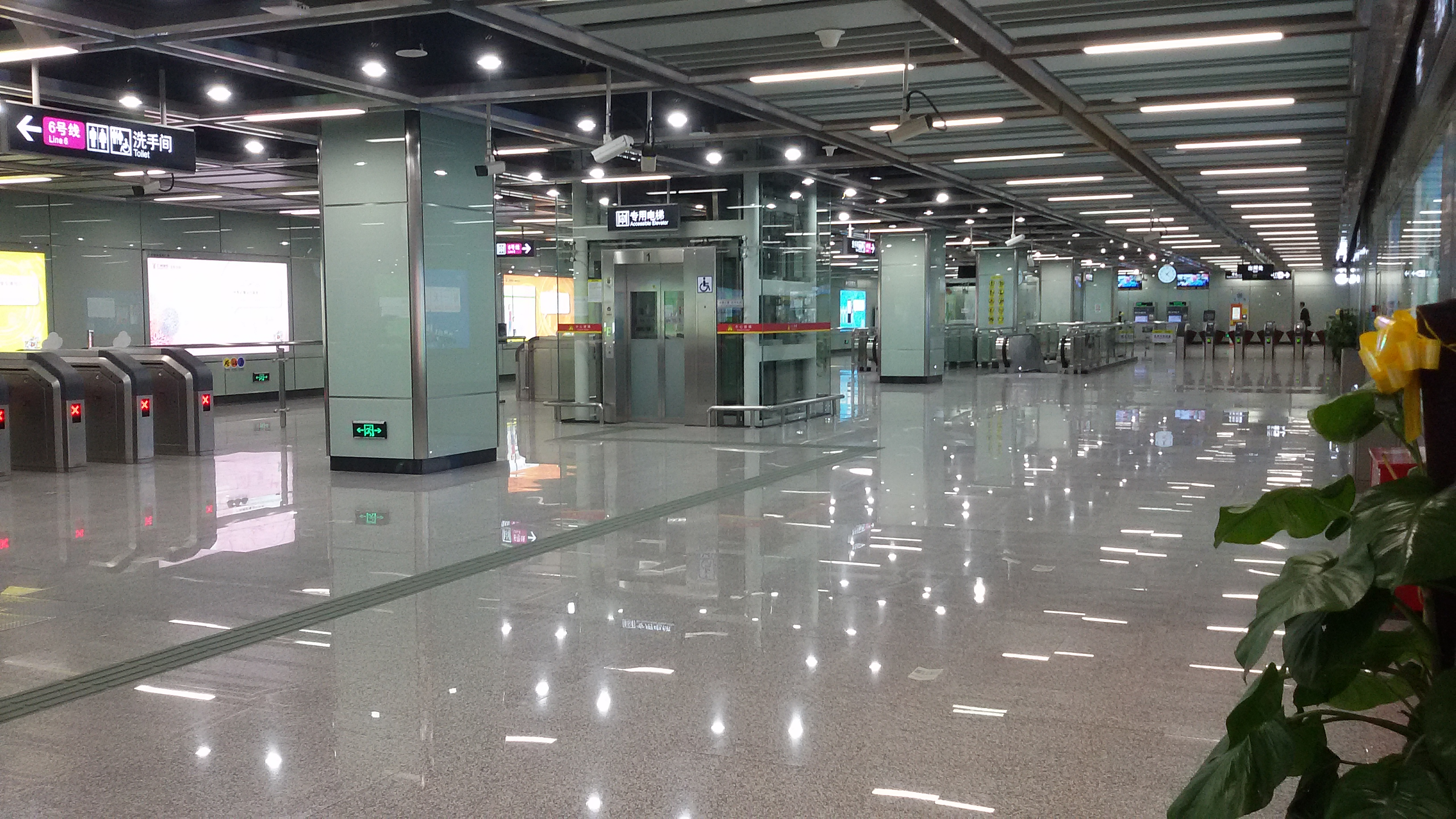 Station Concourse for Huangbei Station in Guangzhou Metro.